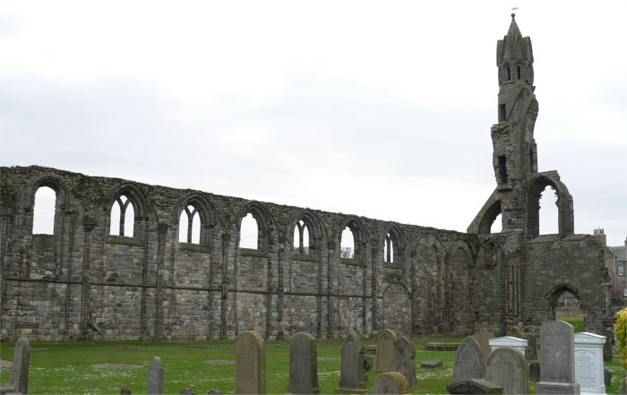 The nave of St Andrews Cathedral in St Andrews (Scotland)